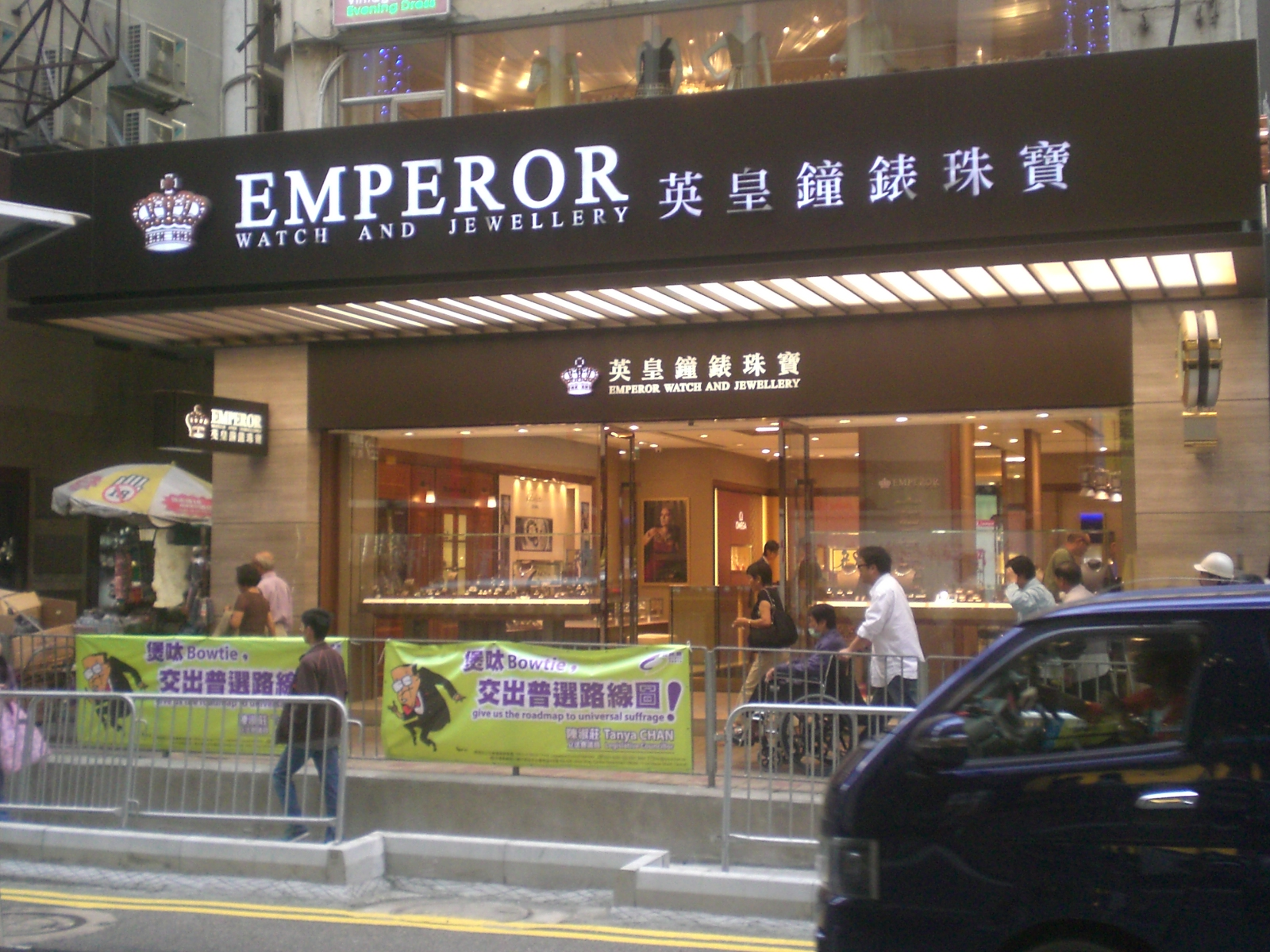 皇后大道中